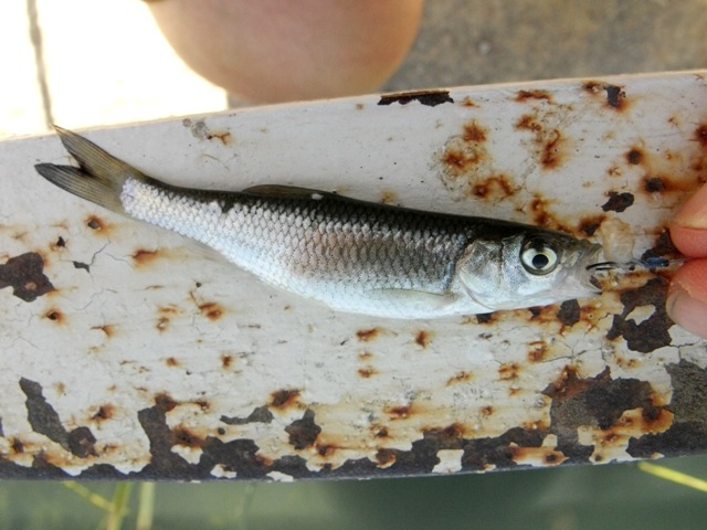 Juvenile Squalius squalus collected a Grosseto province stream (Tuscany, central Italy). Released after photo. Photo by Massimiliano Marcelli.